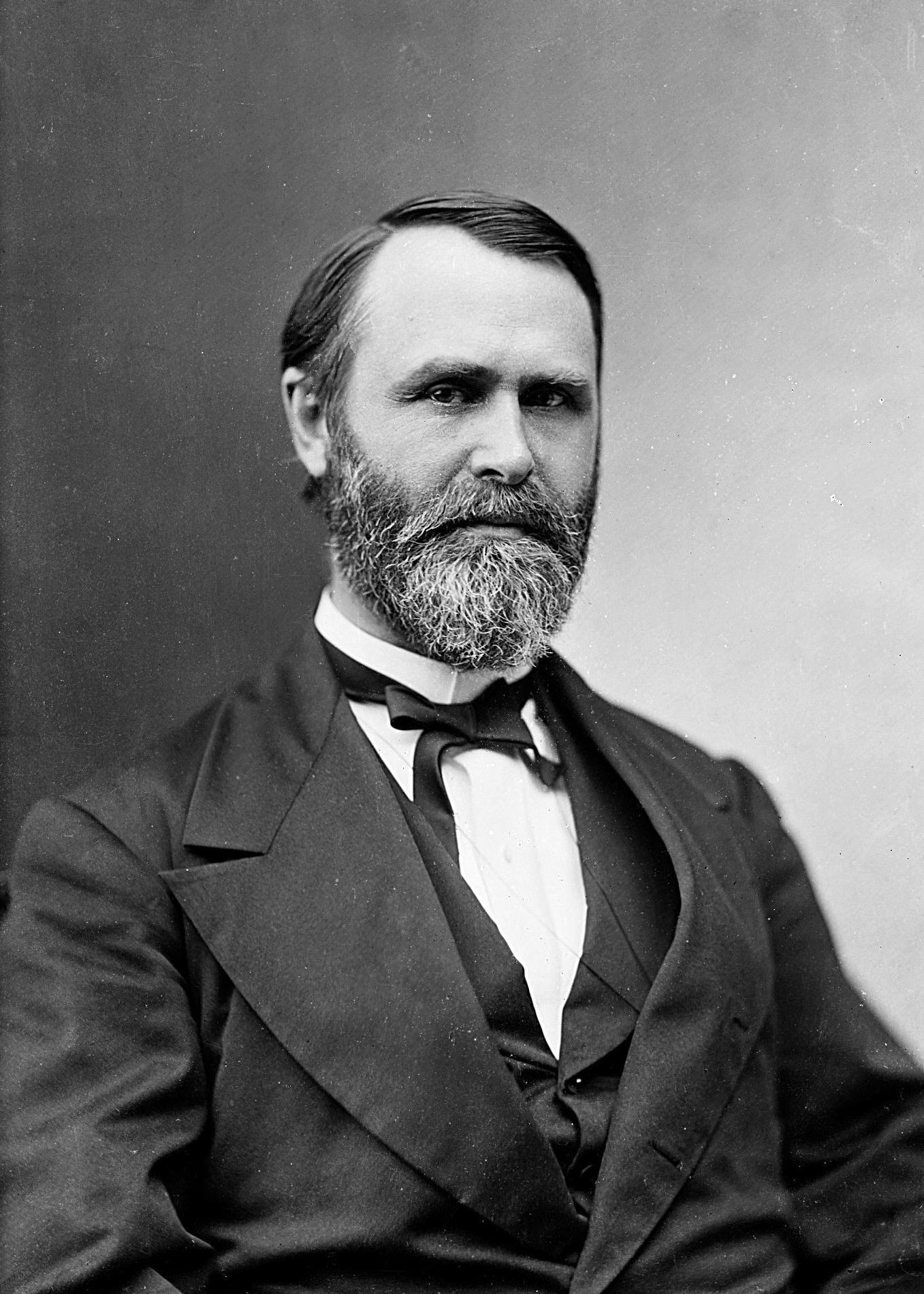 Jacob Dolson Cox Secretary of Interior Grant Administration